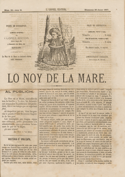 Lonoydelamare - num.33